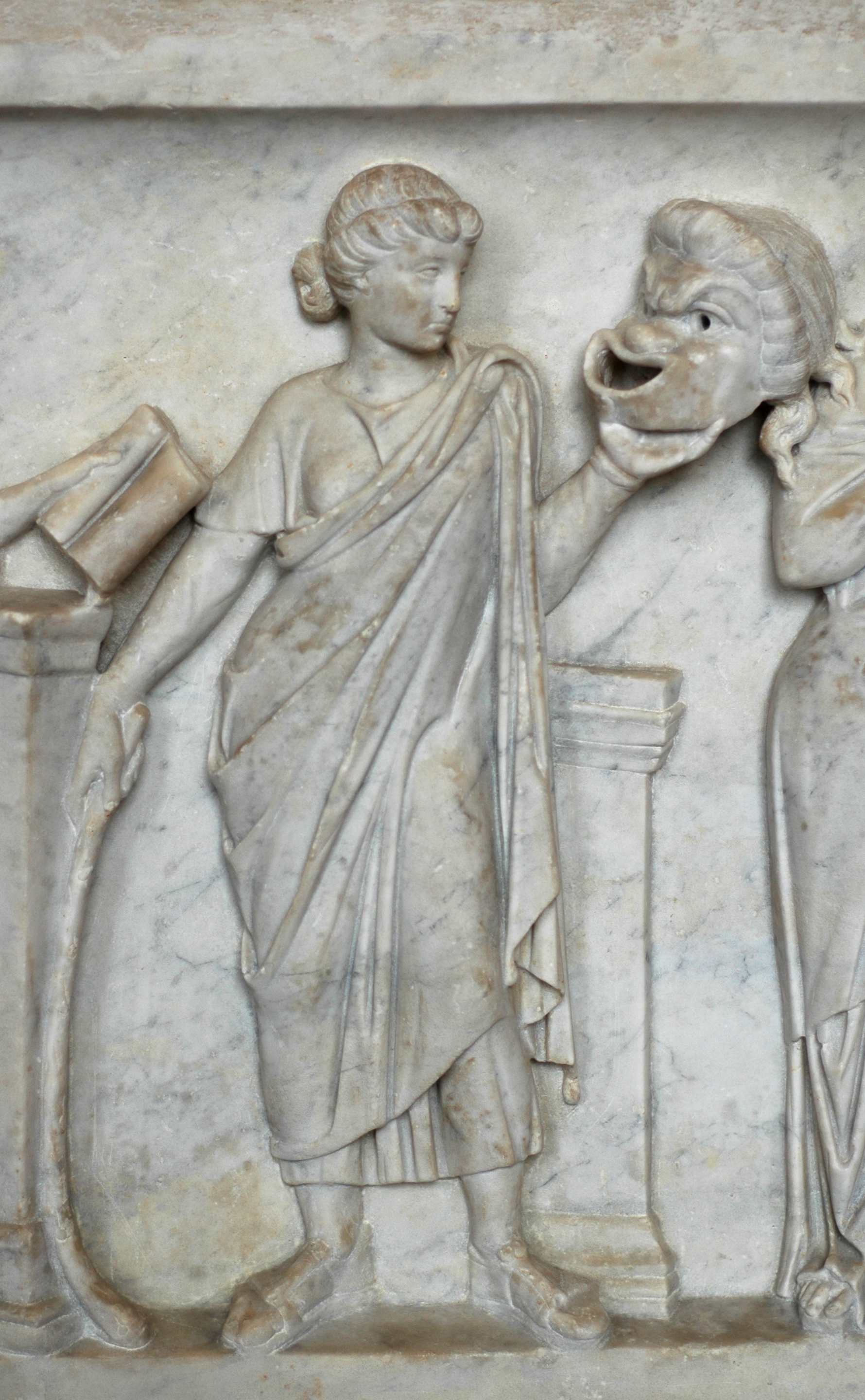 Thalia, muse of comedy, holding a comic mask. Detail from the “Muses Sarcophagus”, representing the nine Muses and their attributes. Marble, first half of the 2nd century AD, found by the Via Ostiense.